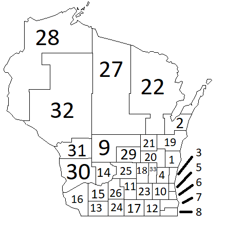 Wisconsin Senate Districts as drawn by 1861 Wisconsin Act 216 In effect for elections from 1861 through 1870.